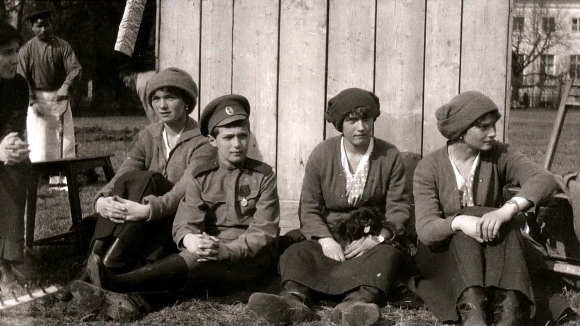 The children of Alexandra Feodorovna and Nicholas II at Tsarkoye Selo. The Grand Duchesses and the Tsarevich: Olga, Alexei, Anastasia and Tatiana. Alexander Park, Tsarskoye Selo. May 1917